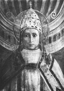 from [1]